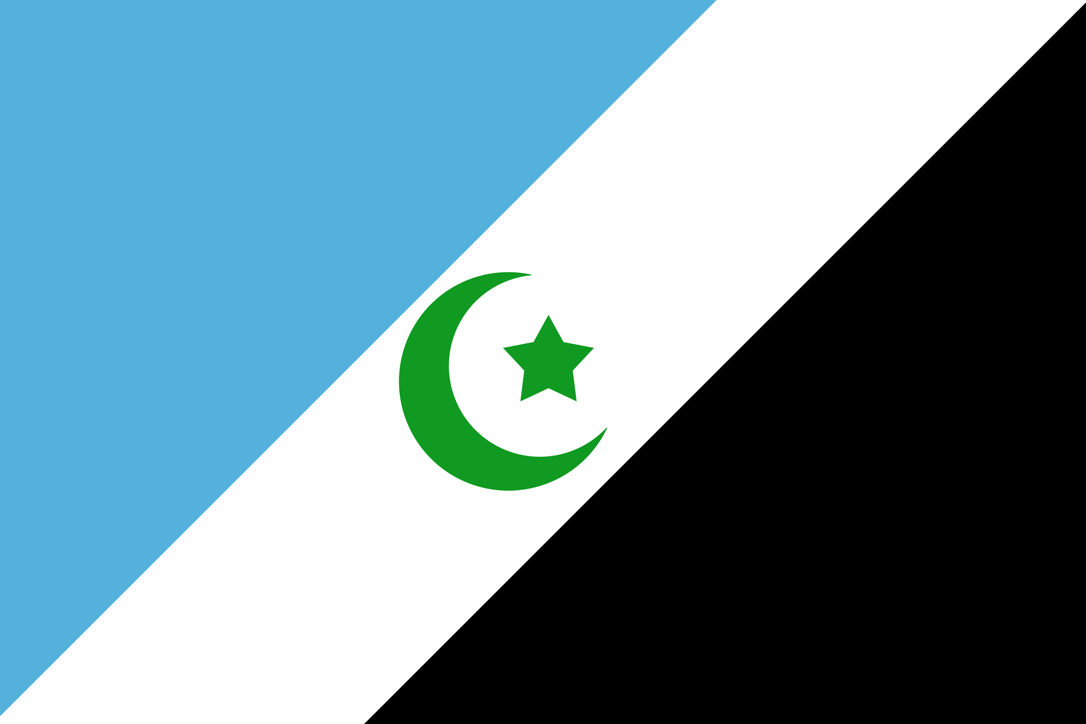 Schabak Flagge